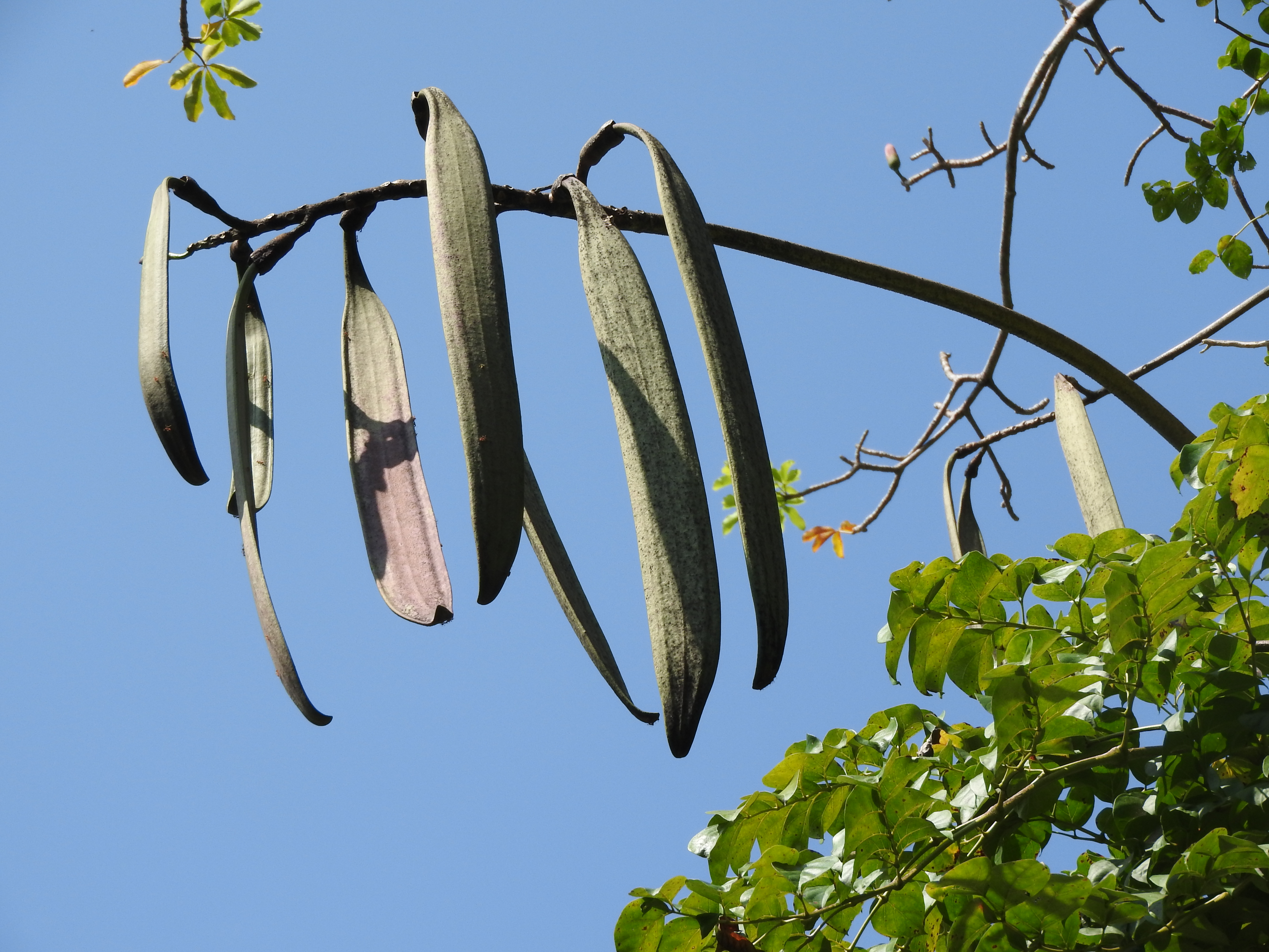 Bignoniaceae-indian trumpet flower,midnight horror;tree,fruits upto 1.5 metres long,resembling swords.